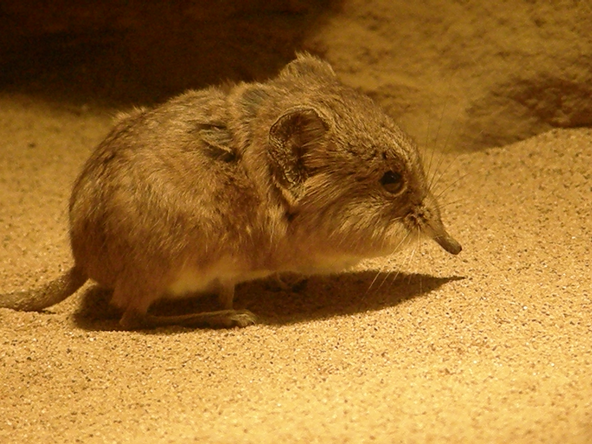 Short-eared Elephant Shrew (Macroscelides proboscideus) in Wuppertal ZOO